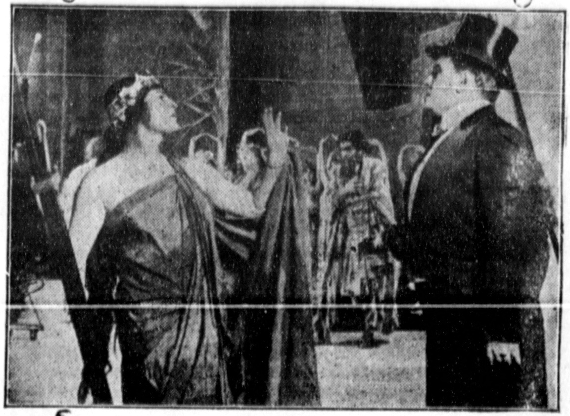 The Tongues of Men is a 1916 silent film drama produced by the Oliver Morosco Company and distributed by Paramount Pictures. This is photo of a scene published in a newspaper.